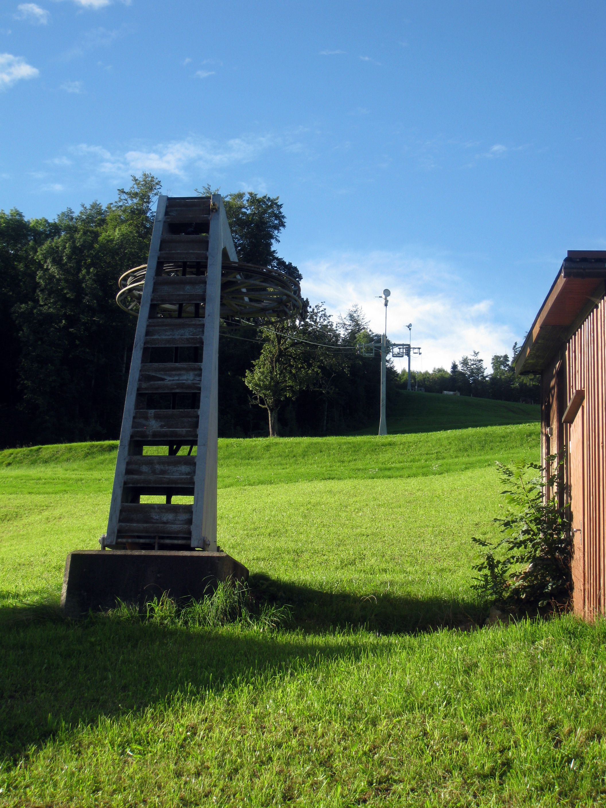 View from the ski elevator valley station to "Grund"